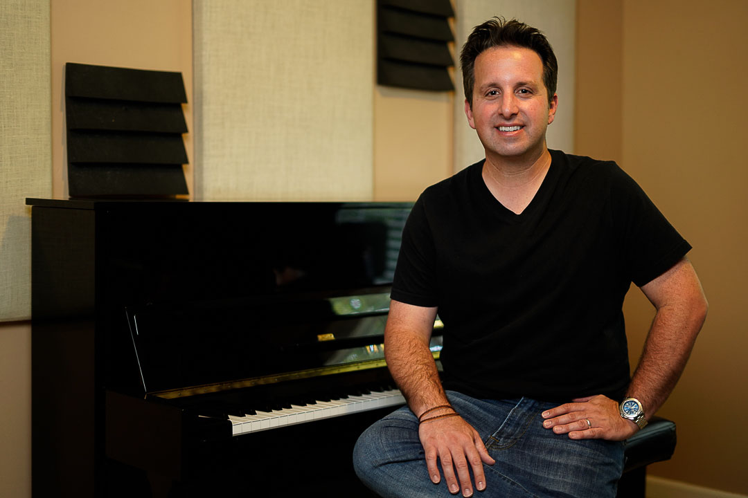 Brett Epstein at an upright piano